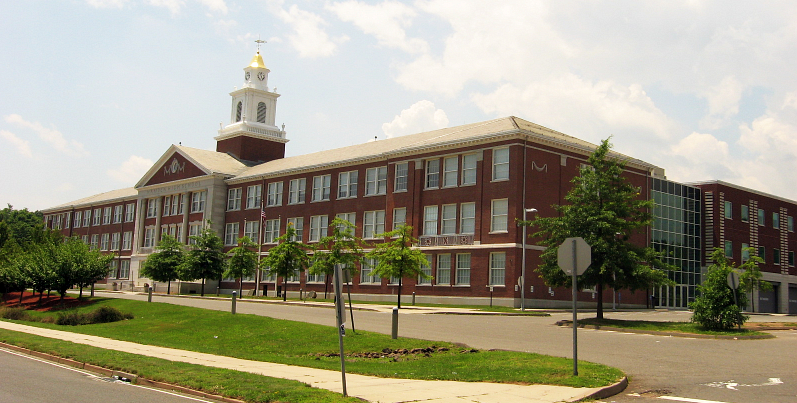 A picture I took of Hamden High School in Hamden, Connecticut. A much better picture than the one that was there.